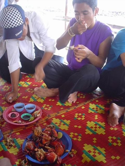 This picture by Albeiro Rodas can be used for any purpose, provided that his name is credited.